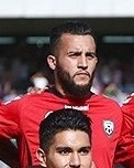 Faysal Shayesteh, captain of Afghanistan before match with Japan, 2018 FIFA World Cup qualification, Azadi Stadium, Tehran